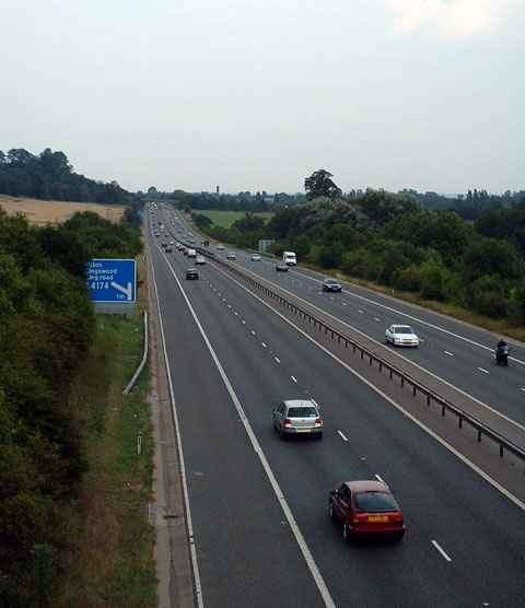 The M32 motorway in Bristol at rush hour.